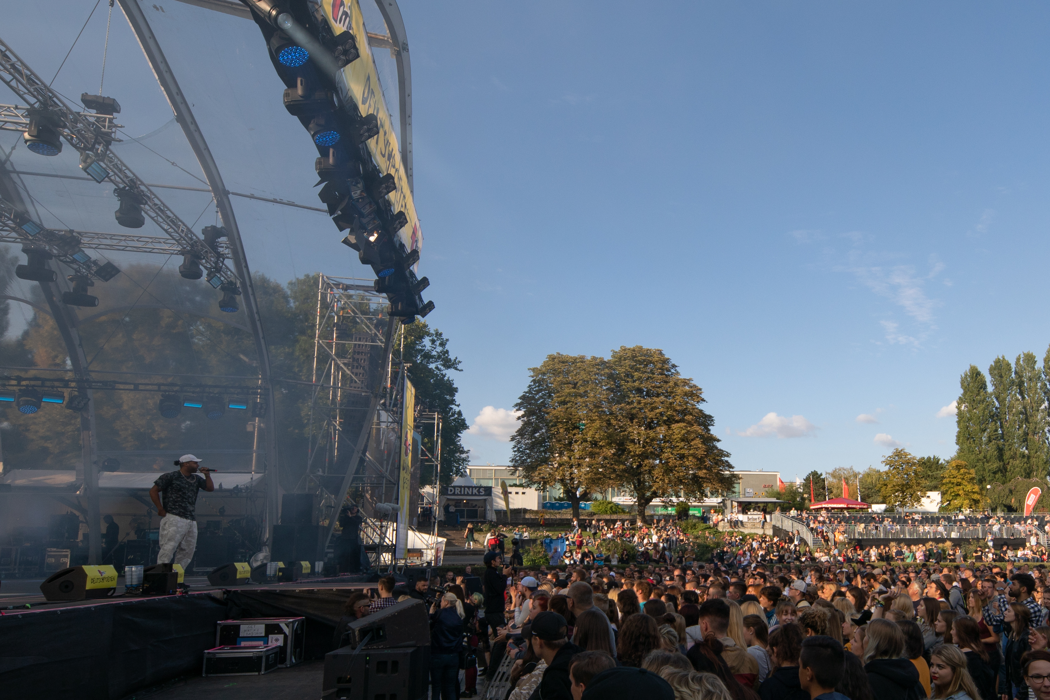 Megaloh at Fritz Deutschpoeten 2018, Berlin IFA Sommergarten